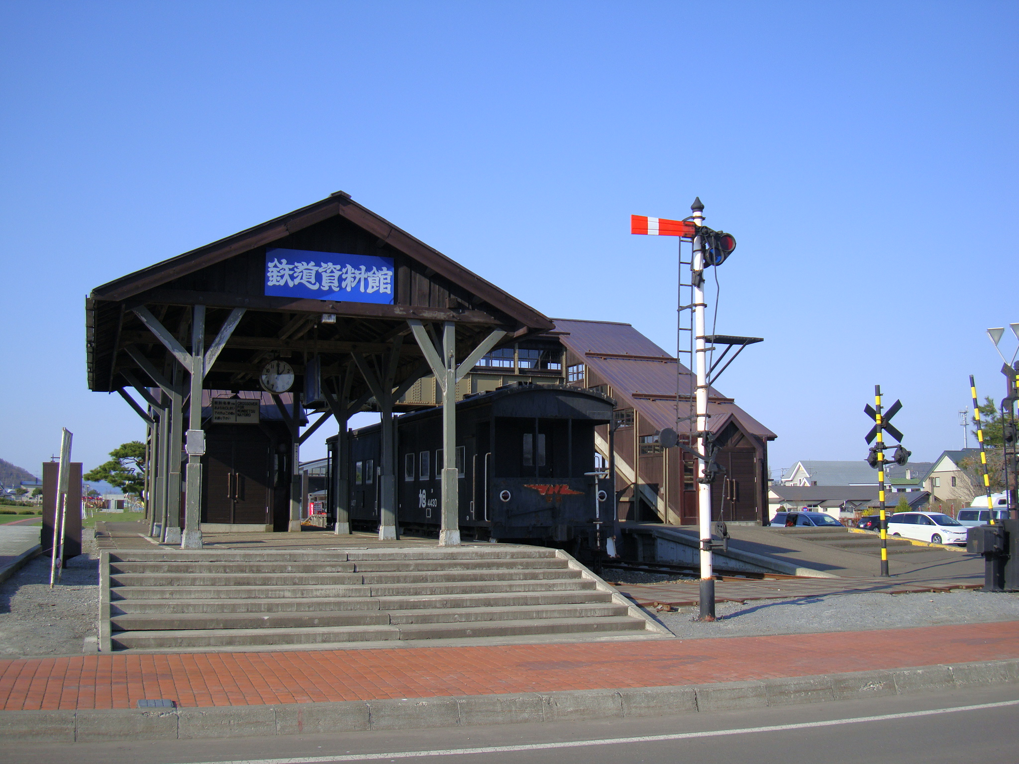 Naka-Yubetsu Station Railway Museum at Michinoeki Kamiyubetsu Onsen Tulip no Yu